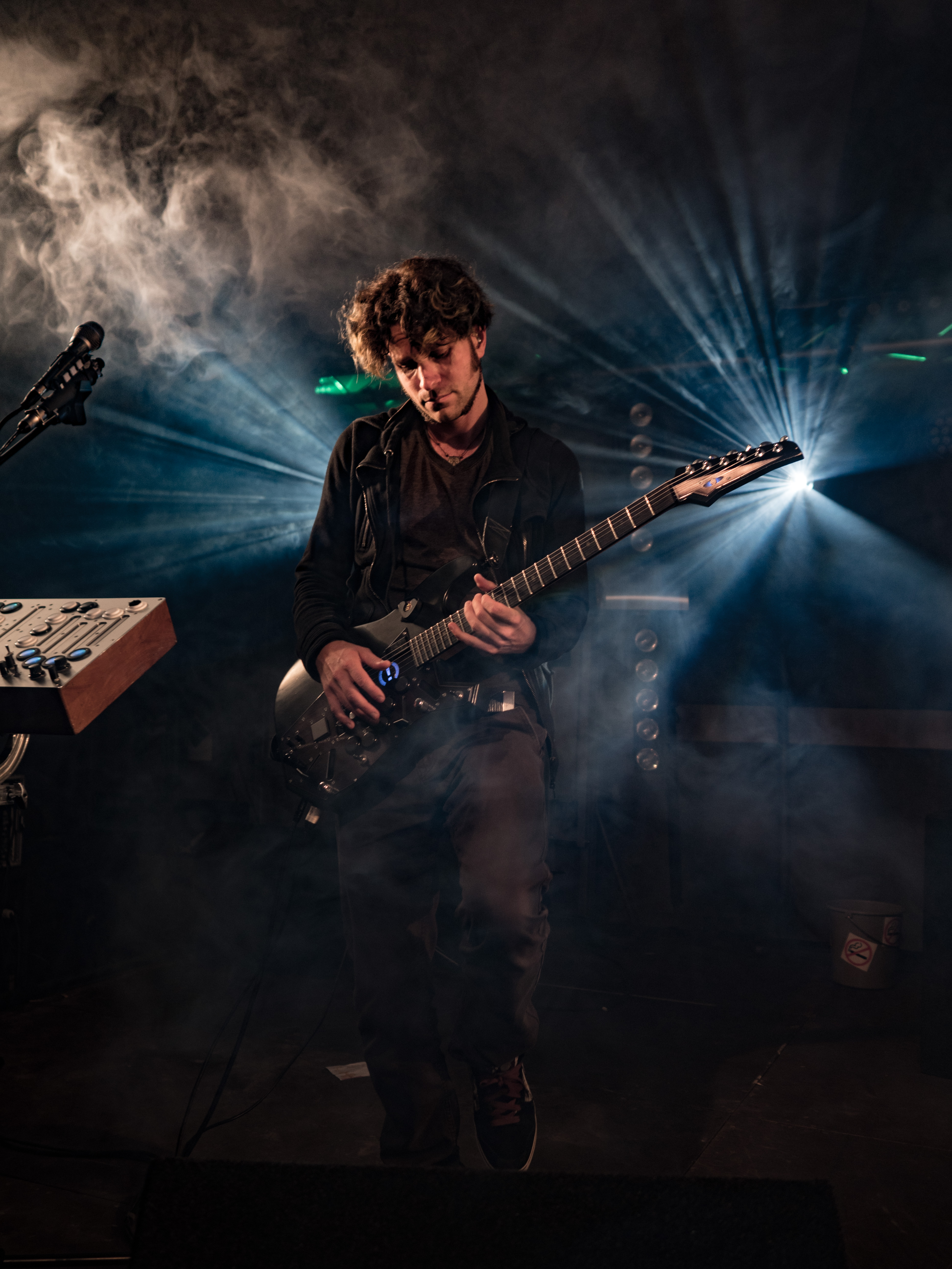 Photographed at SHA2017 Hacker Camp in The Netherlands